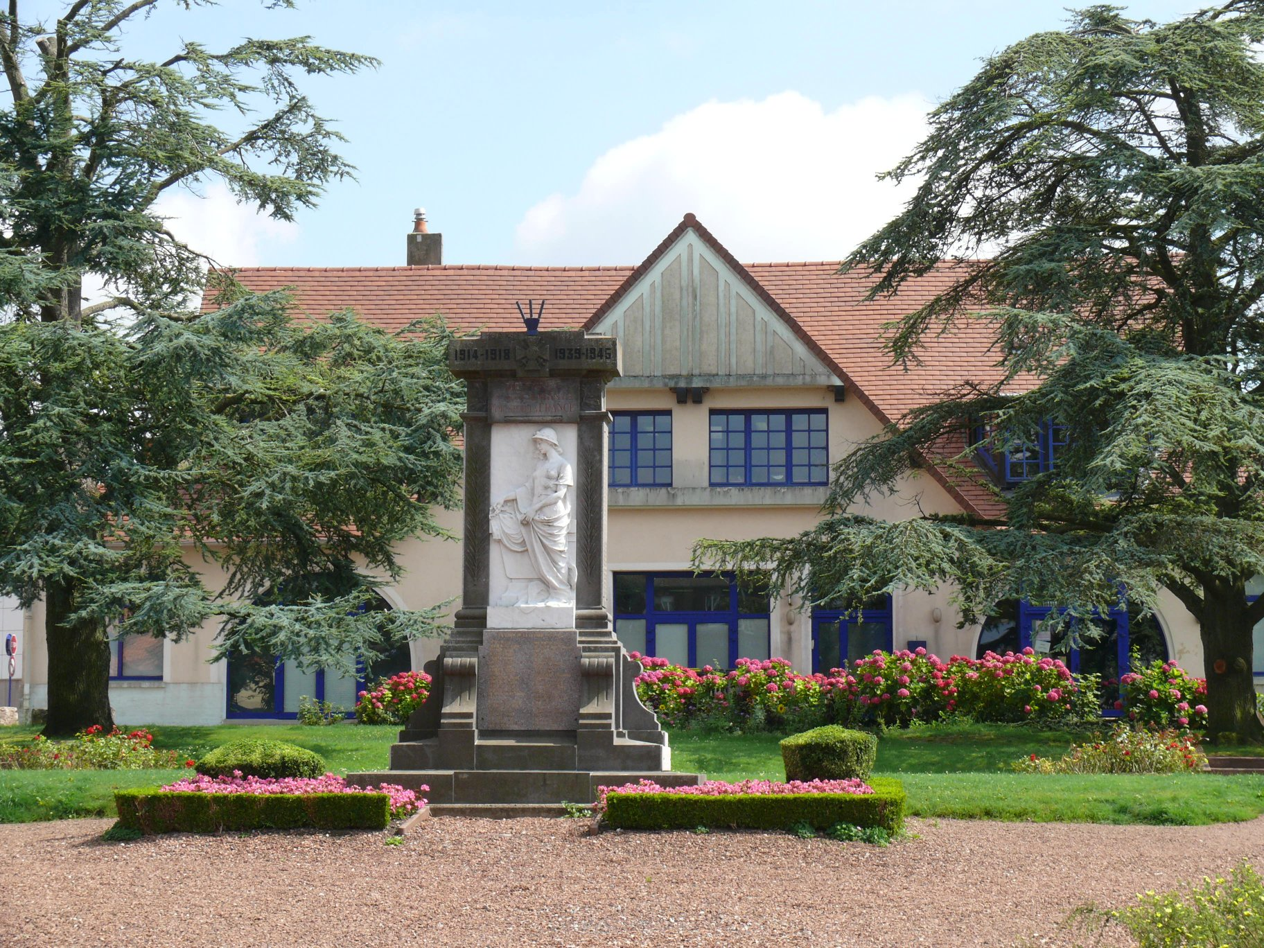 Town hall and war memorial of Desvres (Pas-de-Calais, France).